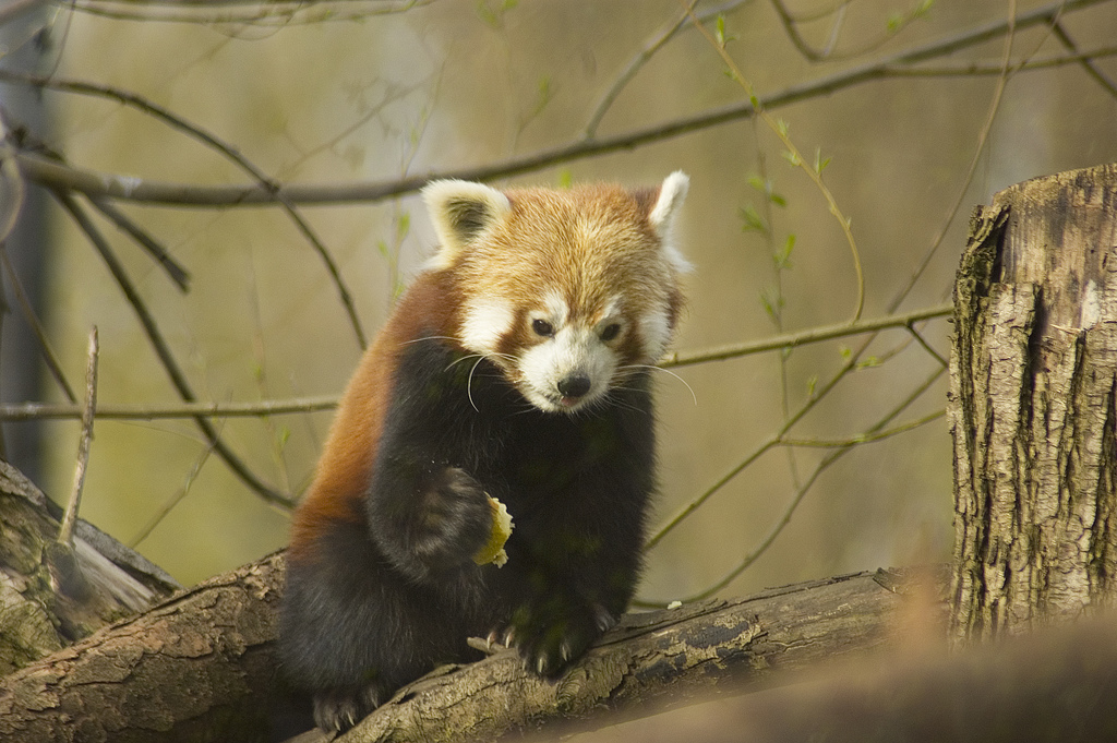 A Red Panda at Birmingham Nature Centre, Birmingham, England.